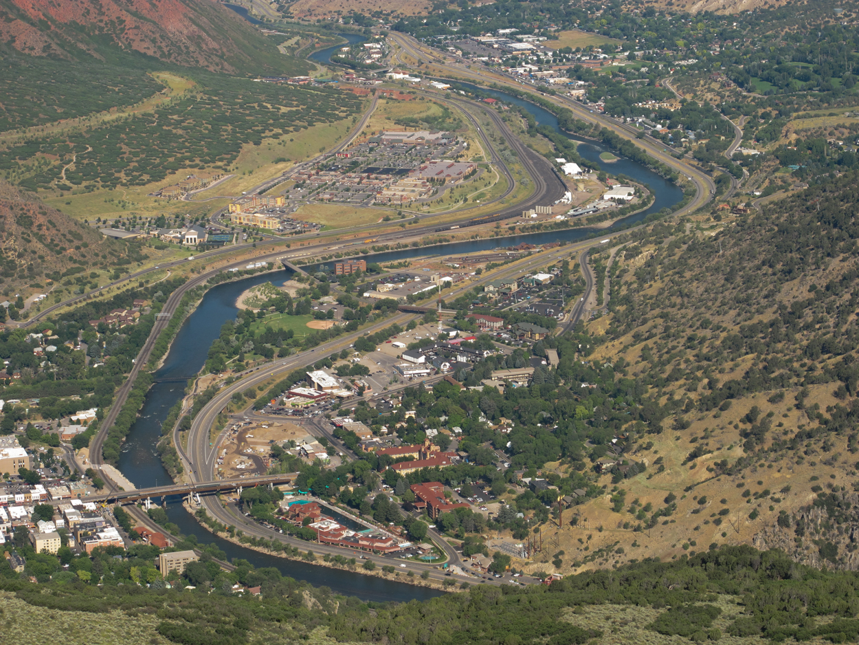 Glenwood springs, viewed from Lookout Mountain